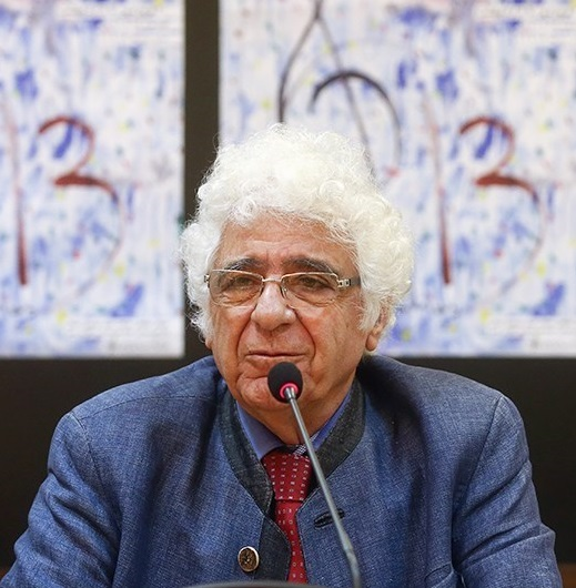 Loris Tjeknavorian, Music on Canvas news conference of 16 April 2016